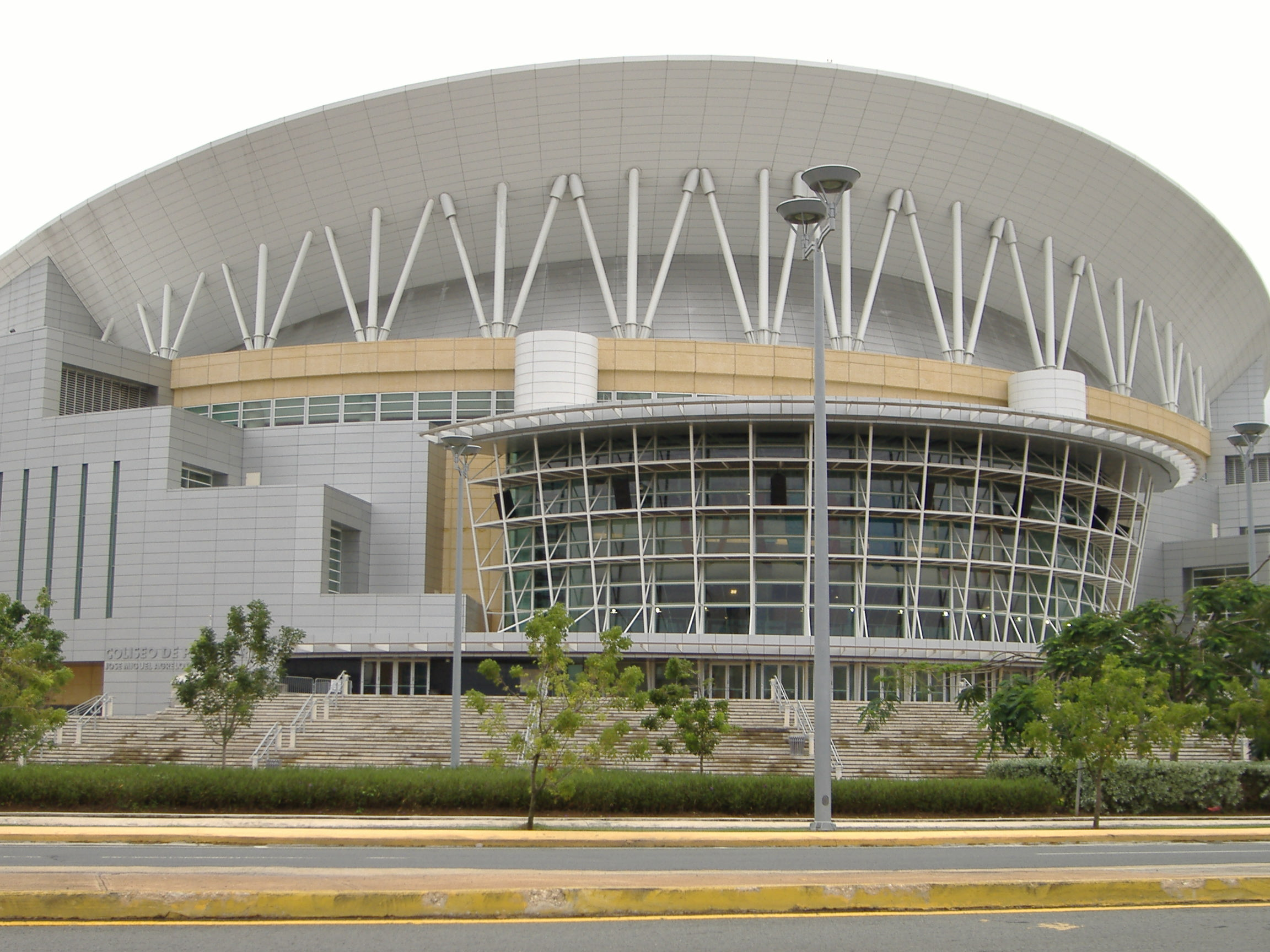 Front facade of the e:Jose Miguel Agrelot Coliseum in San Juan, Puerto Rico.